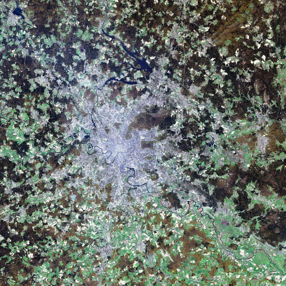 satellite image of the city of Moscow. Moscow, the political and economic heart of Russia, sits on the far eastern end of Europe, roughly 1300 kilometers (815 miles) west of the Ural Mountains and the Asian continent. The city boasts a population of over ten million and encompasses an area of 1035 square kilometers (405 square miles). The Moscow River runs through the center of the city, and the Kremlin, the seat of the Russian government, lies in the direct center. Moscow is thought to have been founded in the 12th Century by Yury Dolgoruky, Prince of Suzdal, who hosted a big feast on the site. The city was shortly after established as a trading route along the Moscow River. Ivan III, who is largely credited with uniting all of Russia, built the Kremlin’s cathedrals and declared Moscow the capital of his new kingdom in the 15th century. In the 17th century, Ivan the Great moved the capital to St. Petersburg, where it remained until the Bolsheviks brought the seat of government back to Moscow in 1918. Over the years the city has been sacked and burnt to the ground by the Tartars, the Poles, and the French. Thanks to the resilient spirit of the Russian people, the city remains as vital as ever. Now it is as capitalist in nature as London or New York, and everything from Big Macs to BMWs can be found on its streets. The blue-gray pixels in this false-color image are urban areas. The light green areas surrounding the city are farms and the brown regions are more sparsely vegetated areas. This image of Moscow was acquired by the Enhanced Thematic Mapper plus (ETM+), flying aboard the Landsat 7 satellite. July 23, 2002, marks the 30th anniversary of the Landsat program. (Click to read the press release—Celebrating 30 Years of Imaging the Earth.) The Landsat program has been particularly instrumental in tracking land use and land cover changes?such as increased urban growth?over the last three decades.